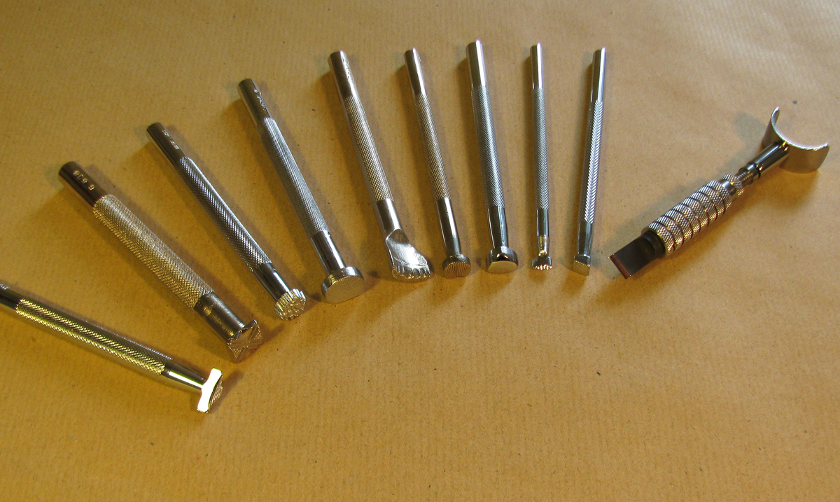 Swivel knife and stamping tools